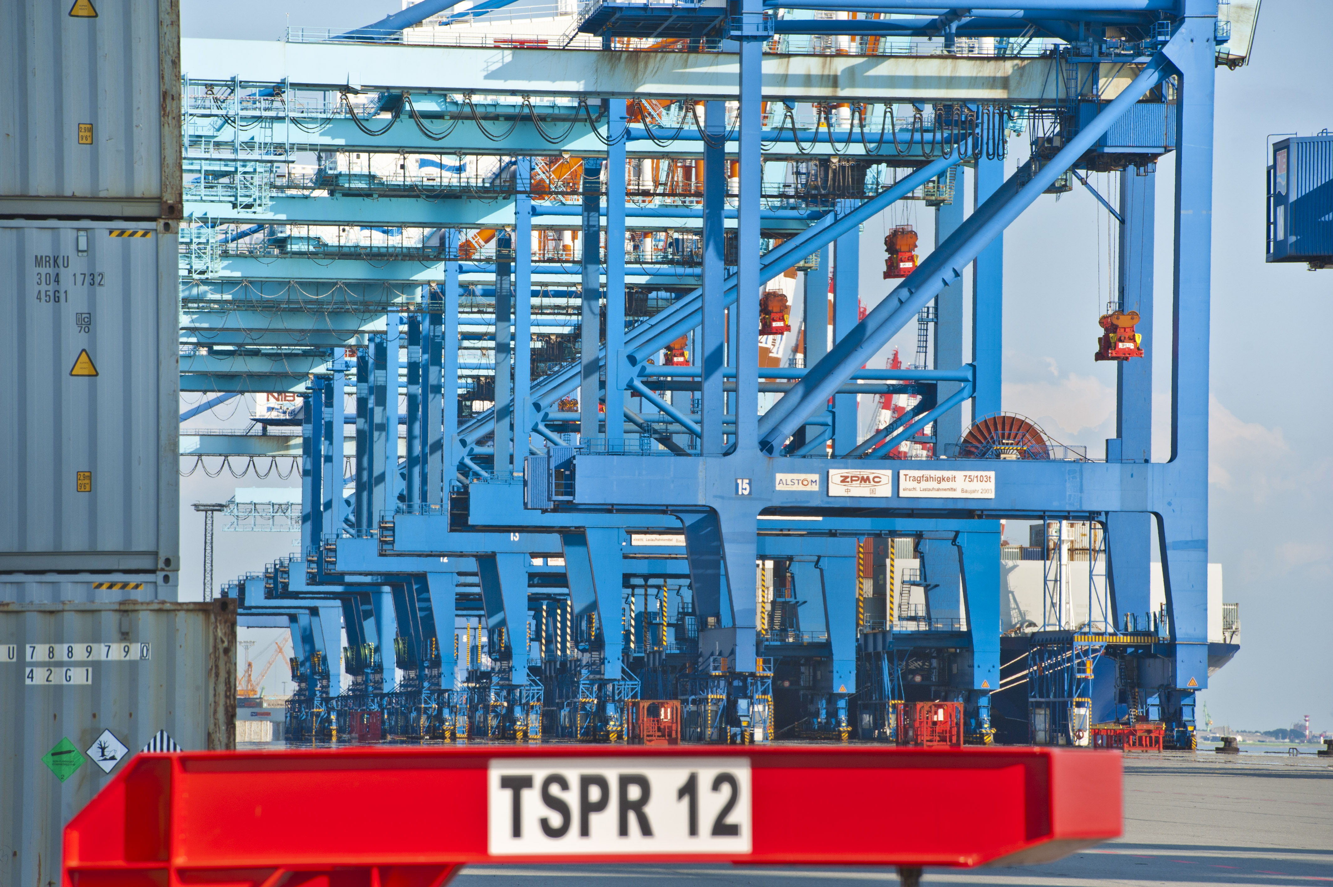 Container Terminal in Bremerhaven, Germany (Whitsunday - one of three days in the year without loading)